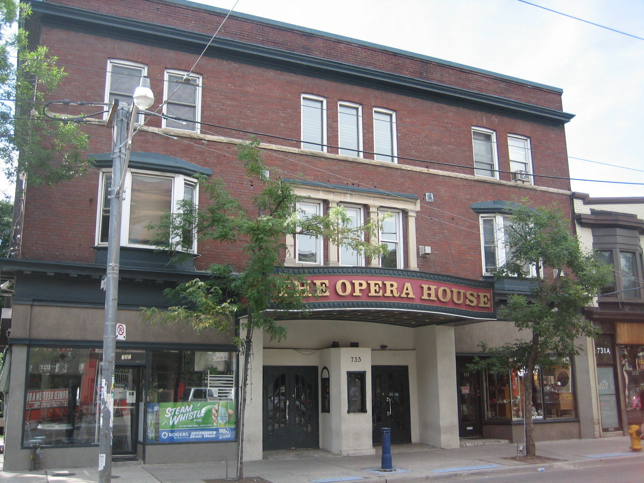 The Opera House (Toronto)